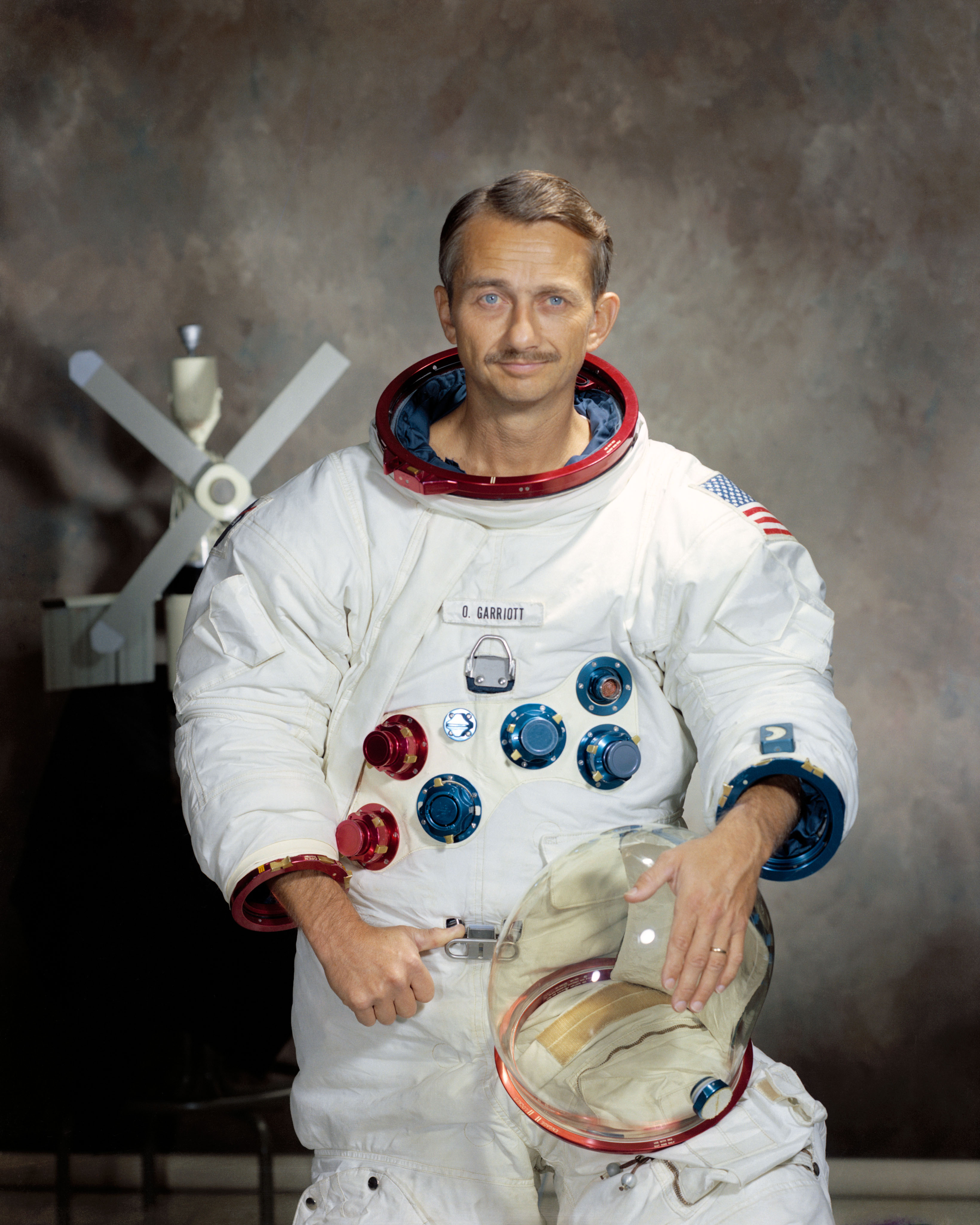 Portrait of Scientist-Astronaut Owen K. Garriott, in space suit, holding his helmet.